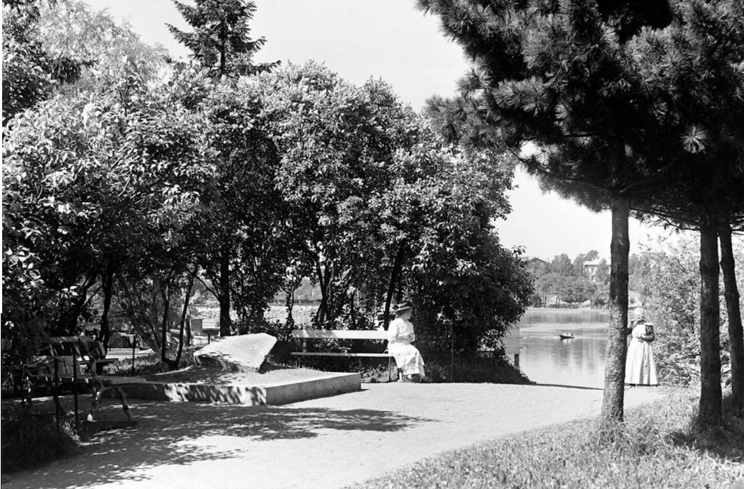 The Freemason's Grave, Kaisanimen puisto, Helsinki, Finland in 1908.